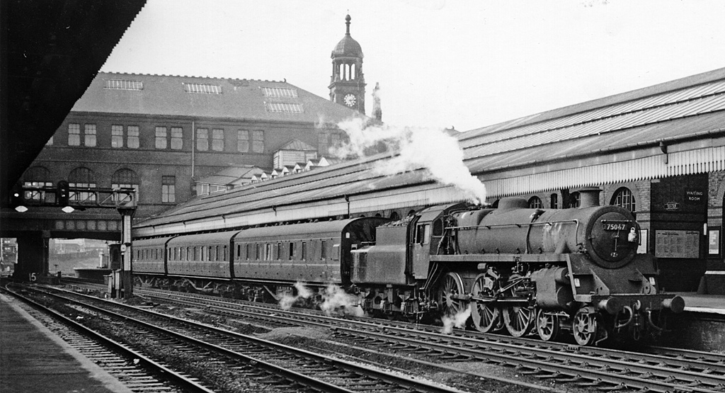 Bolton Trinity Street Station, with Up train. View northward from the main Down platform across to the Up, where BR Standard 4MT 4-6-0 No. 75047 is standing with a local train, probably for Manchester Victoria. Note the principal railay offices on the bridge, with clock-tower, since radically rebuilt.